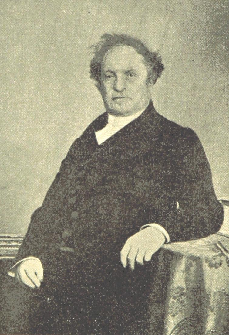 François Louis Gaussen Image taken from: Title: "Die Schweiz im neunzehnten Jahrhundert. Herausgegeben von schweizerischen Schriftstellern unter Leitung von P. Seippel" Author: SEIPPEL, Paul. Shelfmark: "British Library HMNTS 9305.h.2." Volume: 02 Page: 160 Place of Publishing: Lausanne Date of Publishing: 1899 Issuance: monographic Identifier: 003330970 Explore: Find this item in the British Library catalogue, 'Explore'. Download the PDF for this book (volume: 02) Image found on book scan 160 (NB not necessarily a page number) Download the OCR-derived text for this volume: (plain text) or (json) Click here to see all the illustrations in this book and click here to browse other illustrations published in books in the same year.